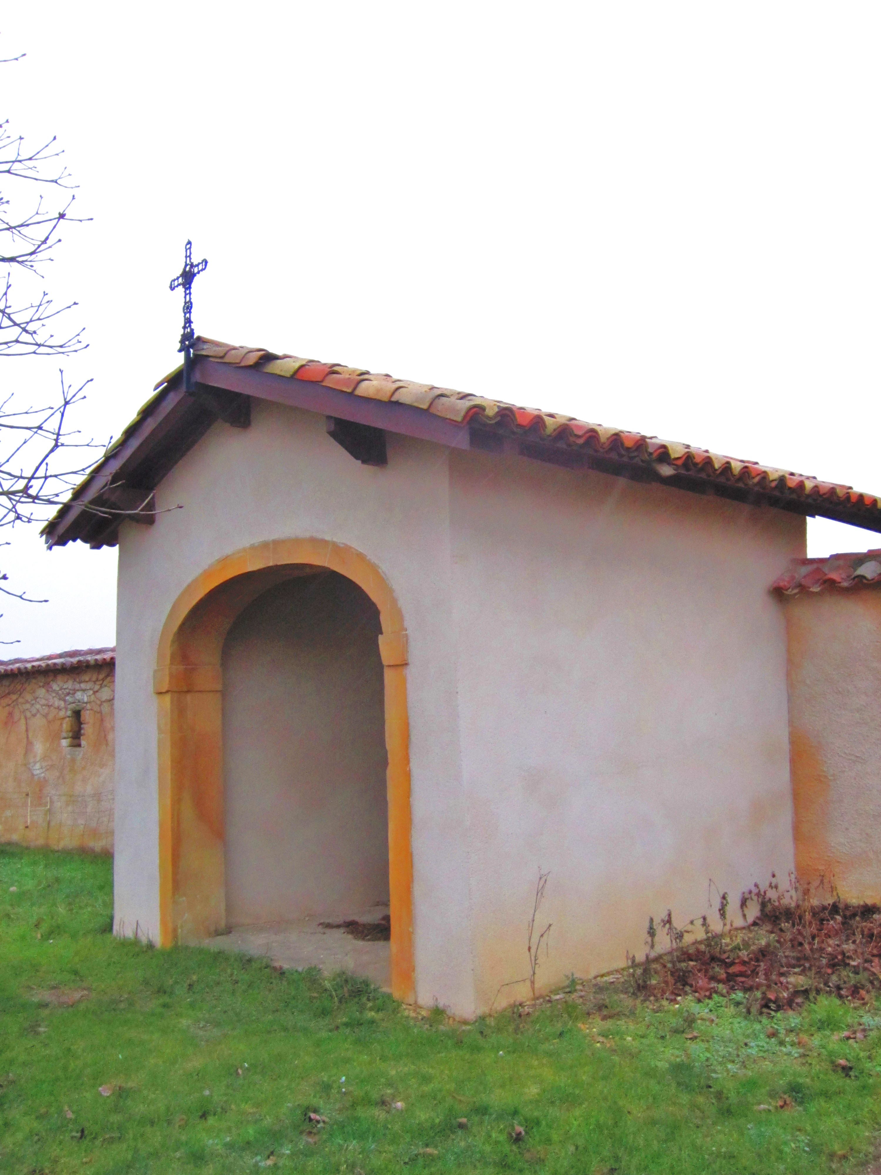 Caulre St Marcel chapel